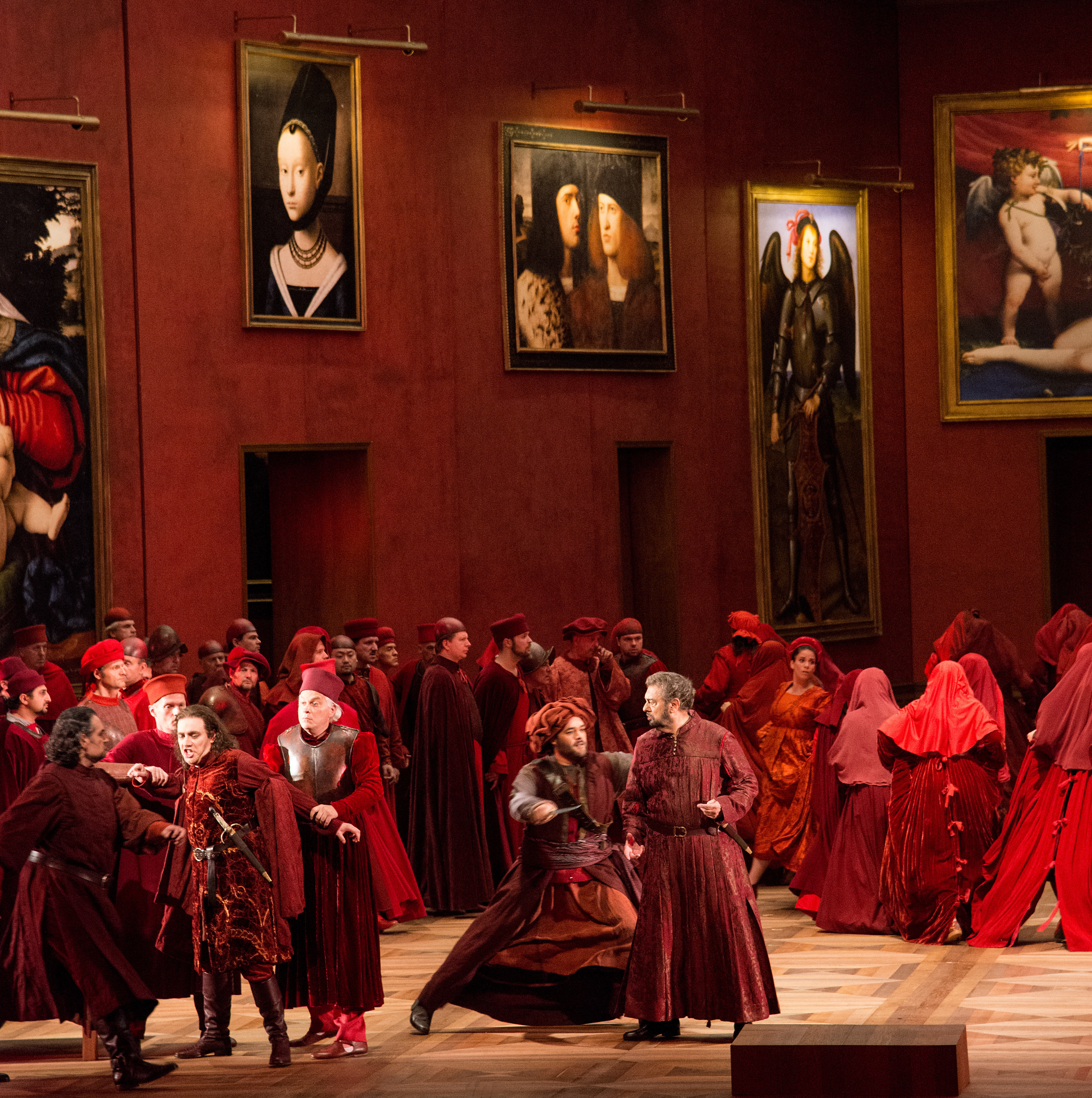 Il Trovatore, Salzburg Festival 2014 with Riccardo Zanellato (Ferrando), Francesco Meli (Manrico), Plácido Domingo (Conte di Luna) and the Chorus of Vienna State Opera